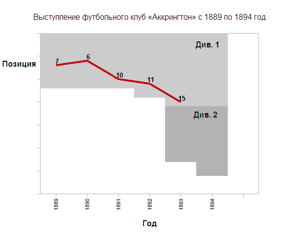 Accrington F.C. league results 1889-1983 rus